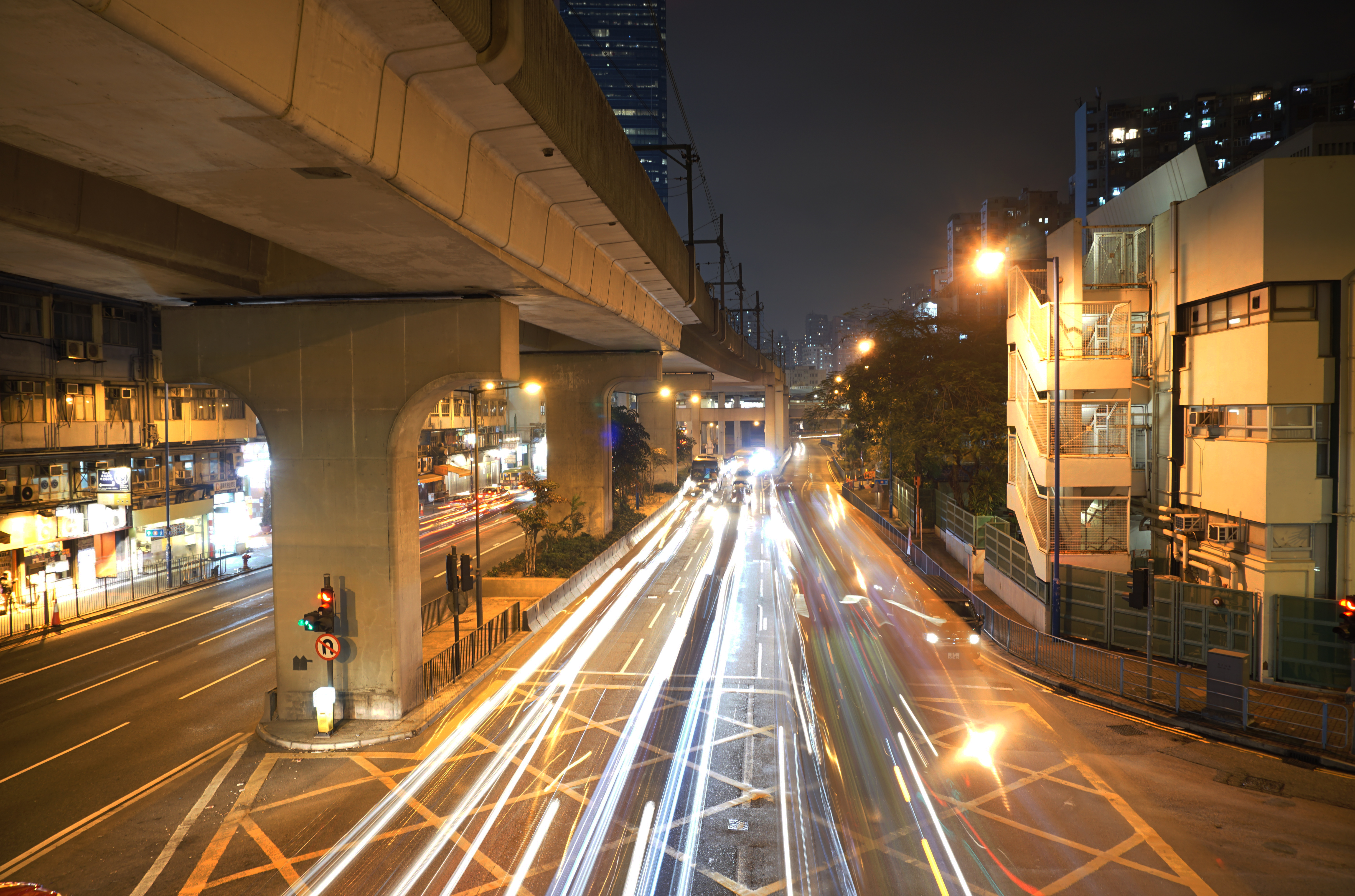 Kwun Tong Road in Kwun Tong, Hong Kong.